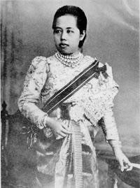 Queen Saovabha Phongsri of Siam